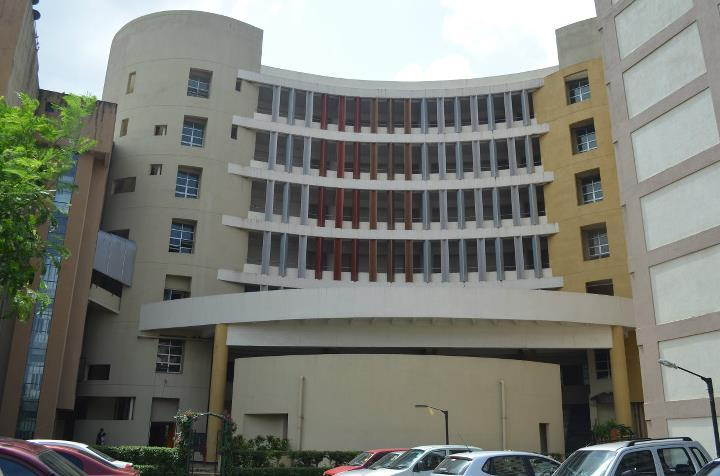 The Academic Building of KJ SIMSR